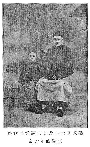 Liang Jianzhang